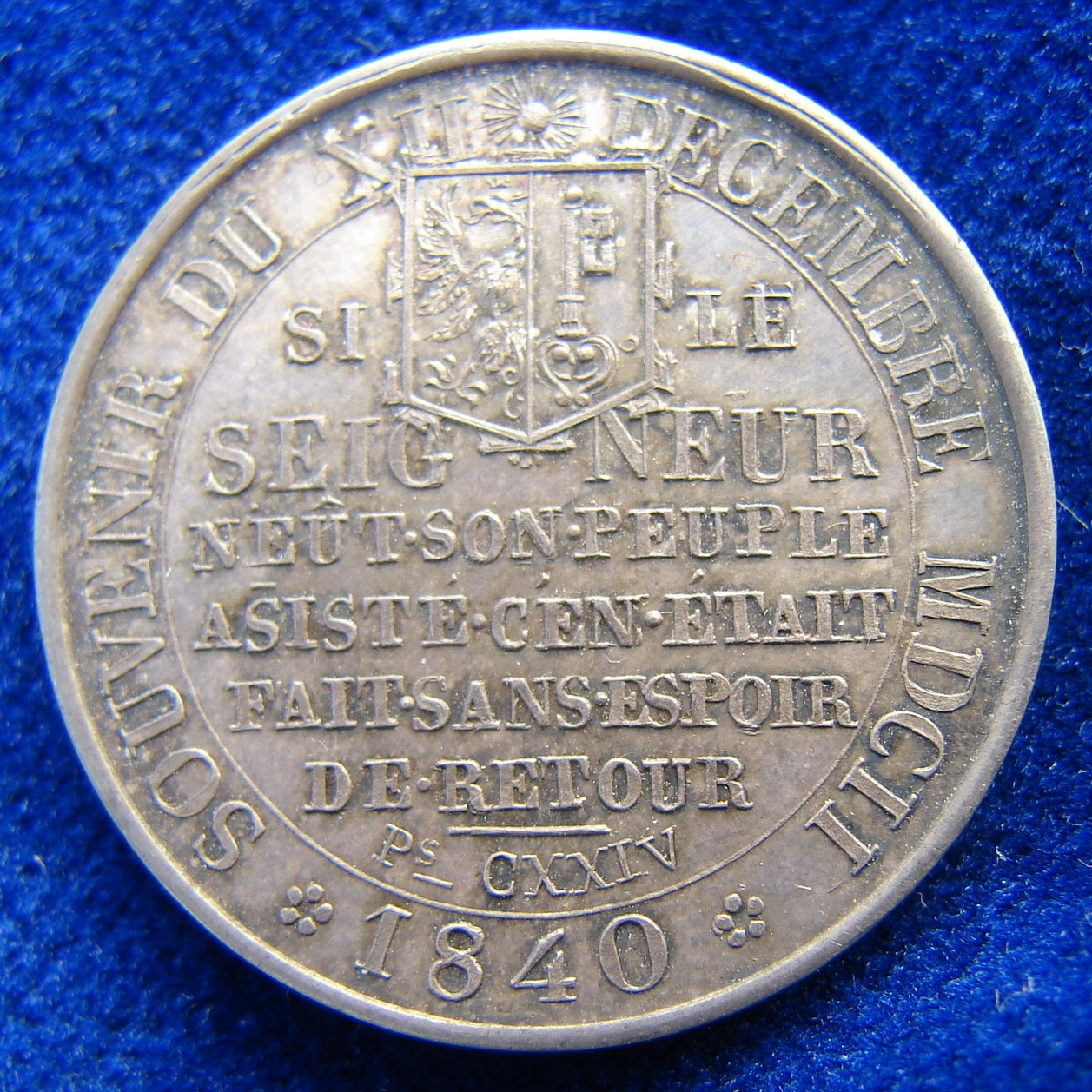 Diameter of this Silver medallion 25 mm. 6.56 g Ag. The arms of Geneva above 7 lines: "SI LE SEIGNEUR N´E ÛT SON PEUPLE ASISTÉ C´EN ÉTAIT FAIT SANS ESPOIR DE RETOUR PS CXXIV", around: "* SOUVENIR DU XII DECEMBRE MDCII * 1840 *"/ On a plaque the names of 17 Genevois directly killed in the battle of 12 December 1602 against the forces of the Duke of Savoy. An 18th citizen died one year later because of his injuries suffered in that battle. Around: "LA PATRIE AUX CITOYENS MORTS EN DEFENDANT LA PATRIE". Medallist: Antoine Bovy, 1795 Geneva - 1877 Geneva. Condition: EXTREMELY FINE+, old patina.